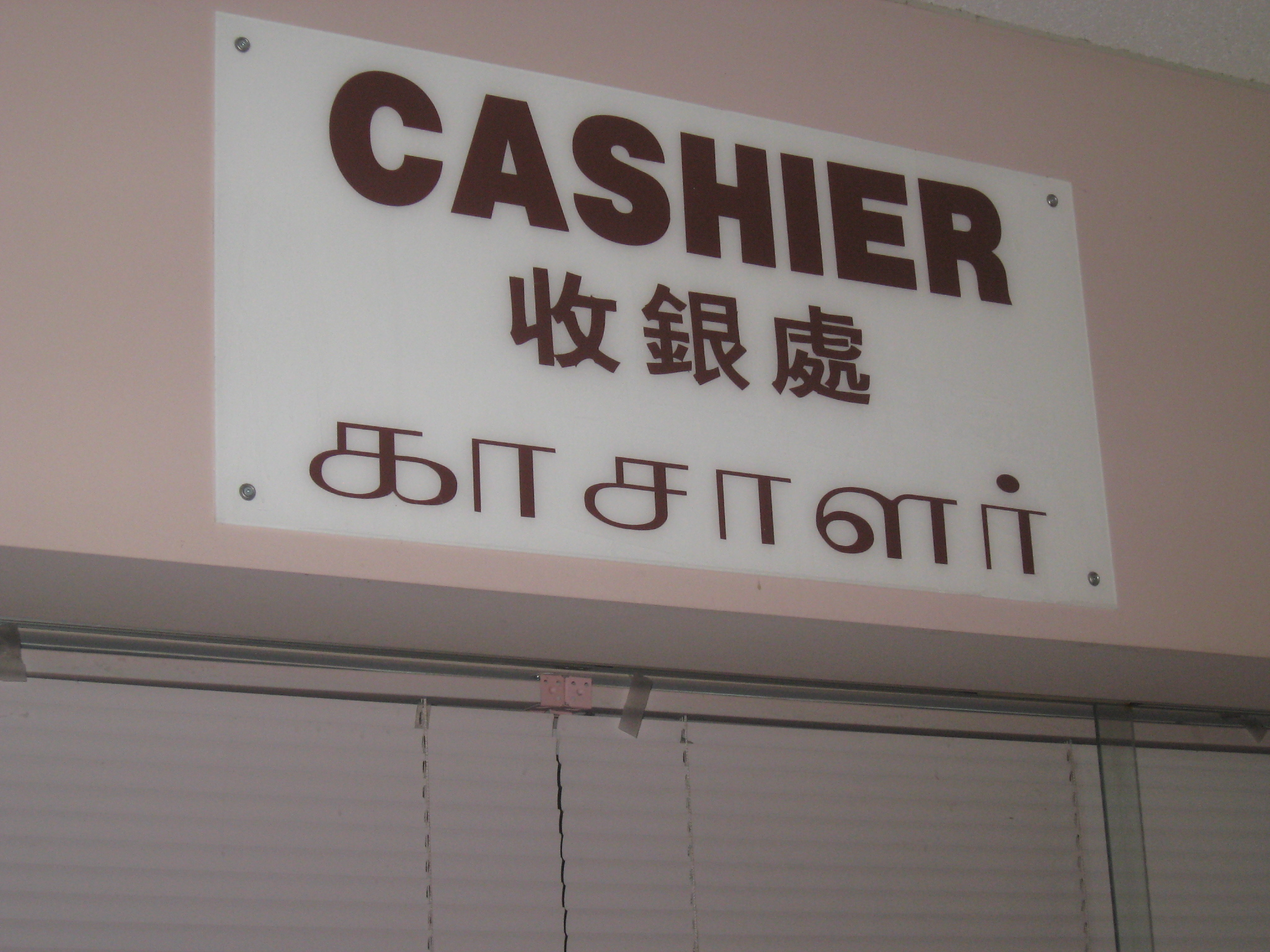 Grace Hospital sign in English, Chinese and Tamil